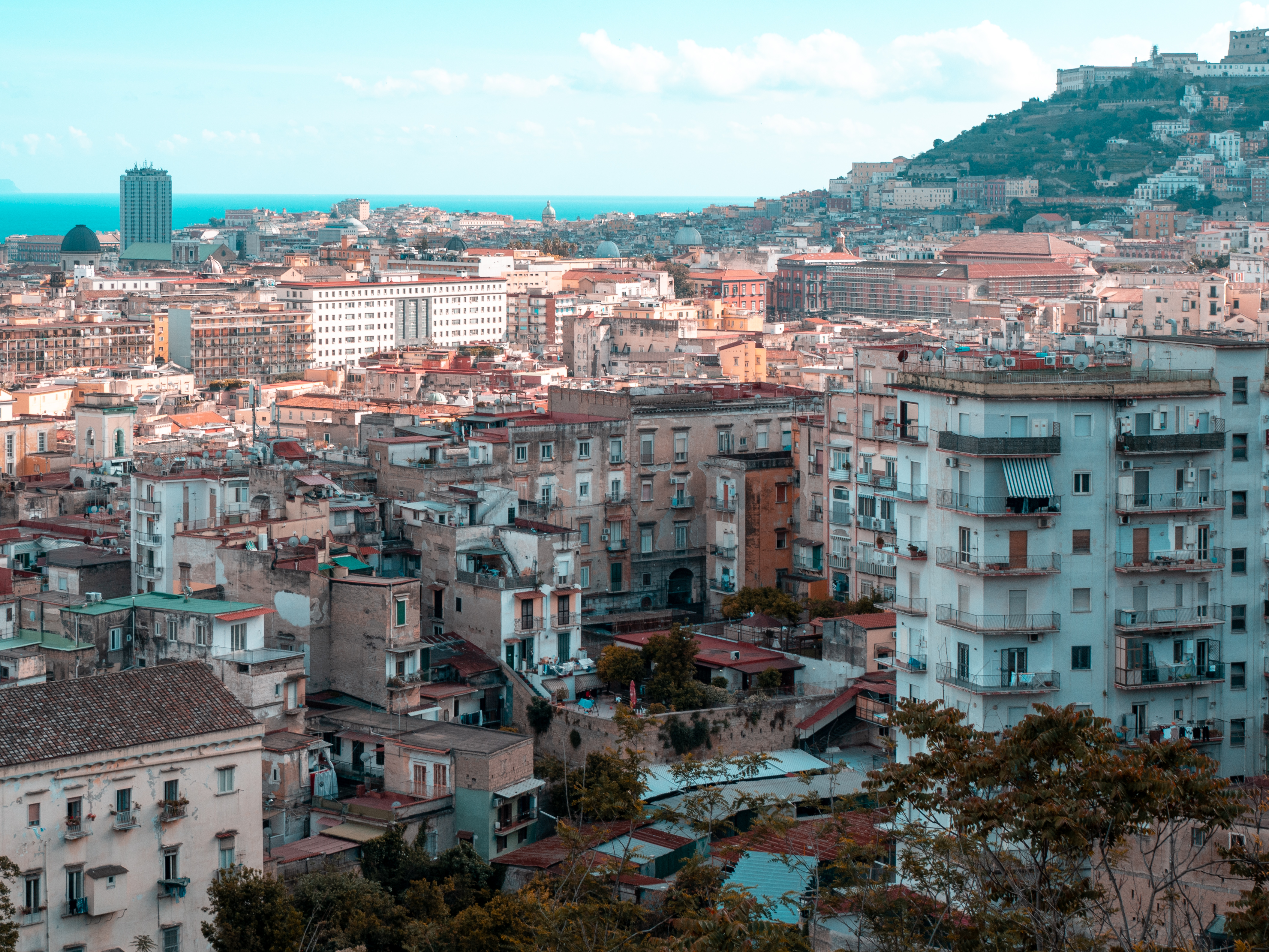 vista del centro storico di napoli, dalle colline a nord est.